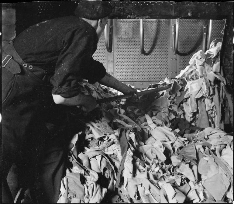 Old Rags Into New Cloth- Salvage in Britain, April 1942 A worker at this textile mill removes rags from the carbonising machine. The carbonising process destroys any non-wool fibres in shredded salvaged material, so that the rags can become 'shoddy' and be used to produce new woollen garments.